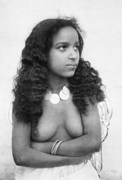 Girl in Tripoli, 1898 - 1906 - Richard Storch